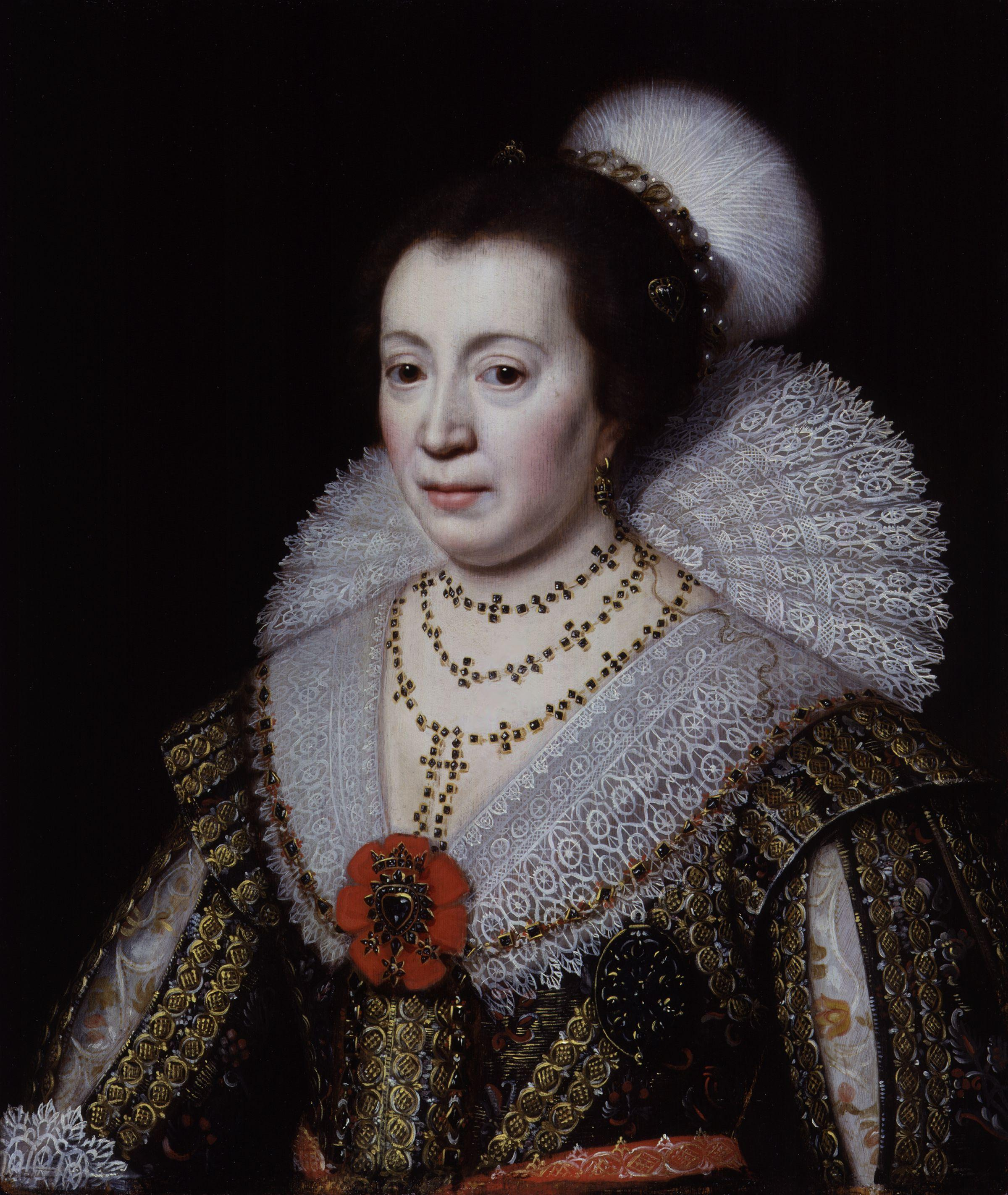 This portrait is richly adorned with jewels and a pearl and feather headpiece. On her chest sits a rosette with a large heart-shaped gemstone crested with a coronet. The oval locket pinned to her dress may have contained a portrait minature. It makes a splendid contrast to the sober image of her husband painted at the same time.